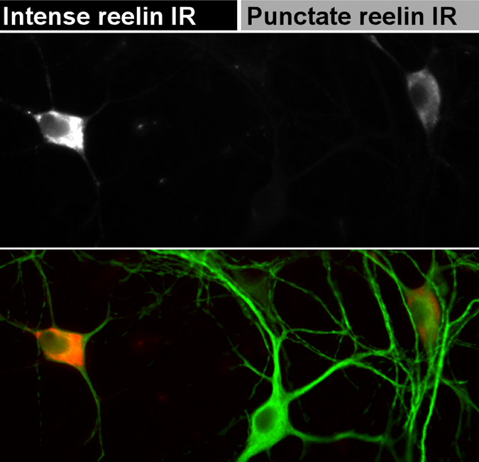 A fragment of the Figure 1. Profile of intense and punctate reelin IR during hippocampal maturation. (B) Top: Representative image of somatic reelin immunoreactivities found in 12 div hippocampal neurons. Bottom: reelin immunofluorescence (red) overlaid with MAP2 counterstain (green).